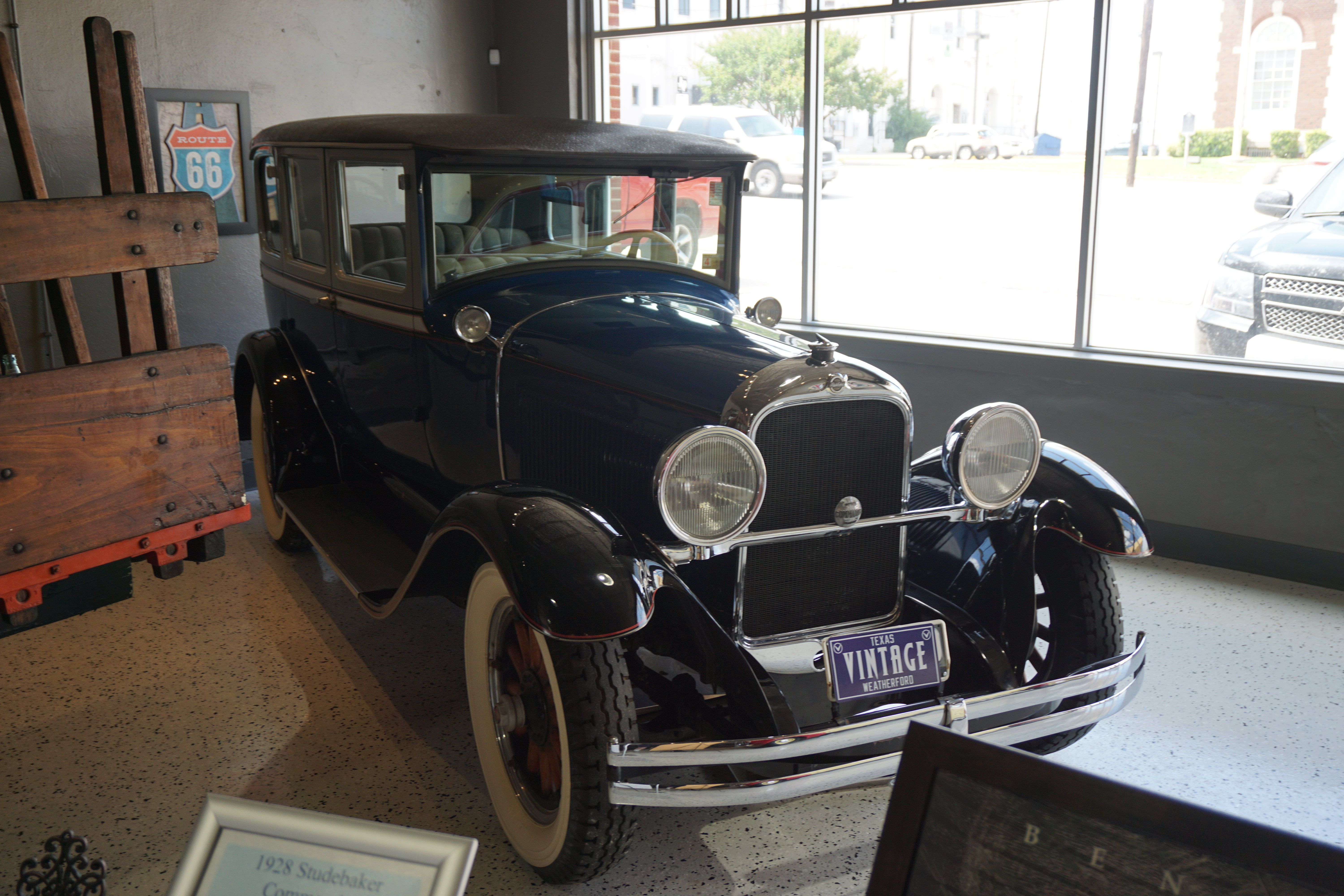 A 1928 Studebaker Commander at the Vintage Car Museum & Event Center in Weatherford, Texas (United States).